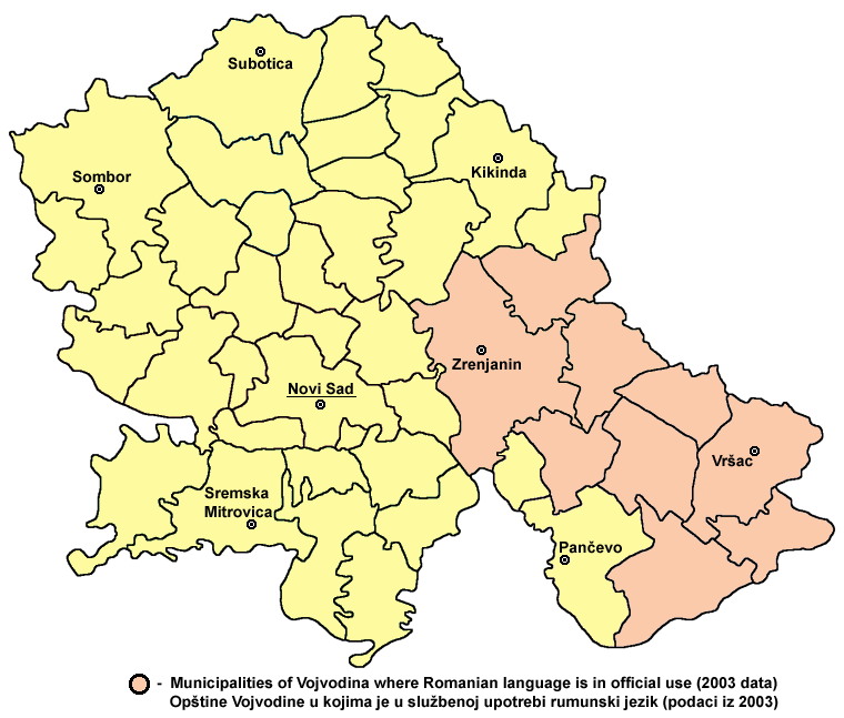 Official usage of Romanian language in Vojvodina (2003 data).